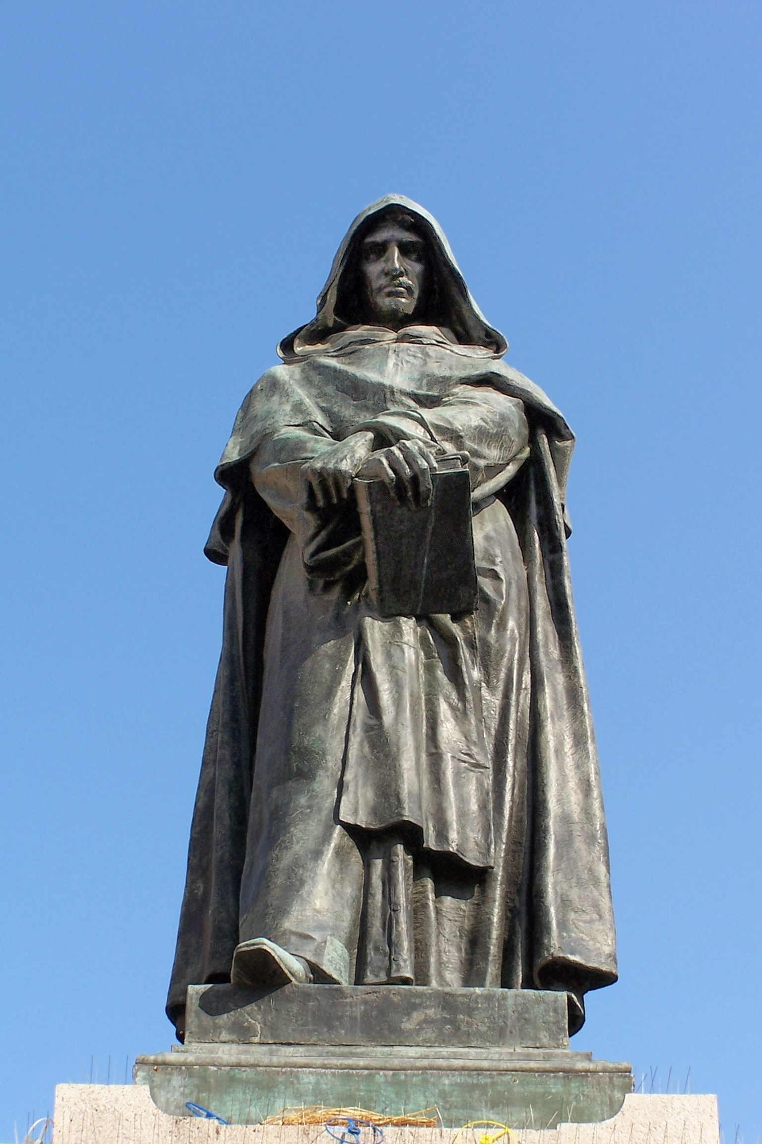 Monument to Giordano Bruno, Campo de' Fiori, Rome